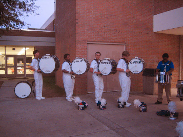 High school bass drummers.